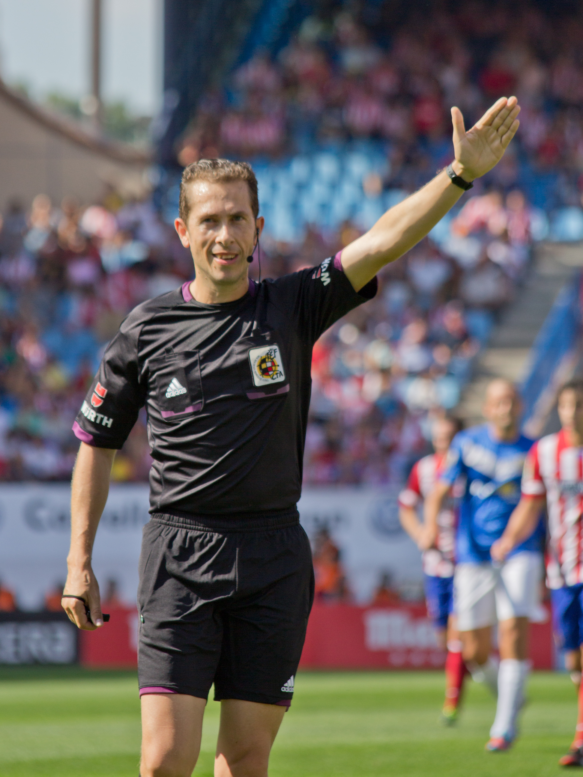 José Luis González González, Spanish football referee.